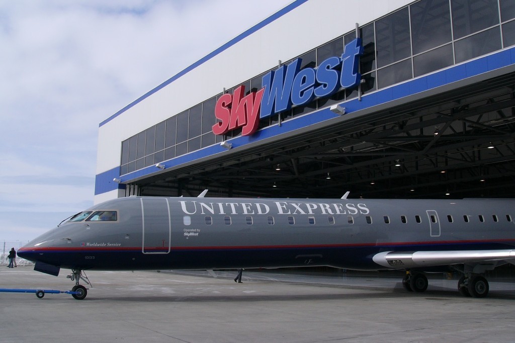 A SkyWest Airlines (United Express) CRJ-700 at the SkyWest hangar facility at Salt Lake City International Airport.